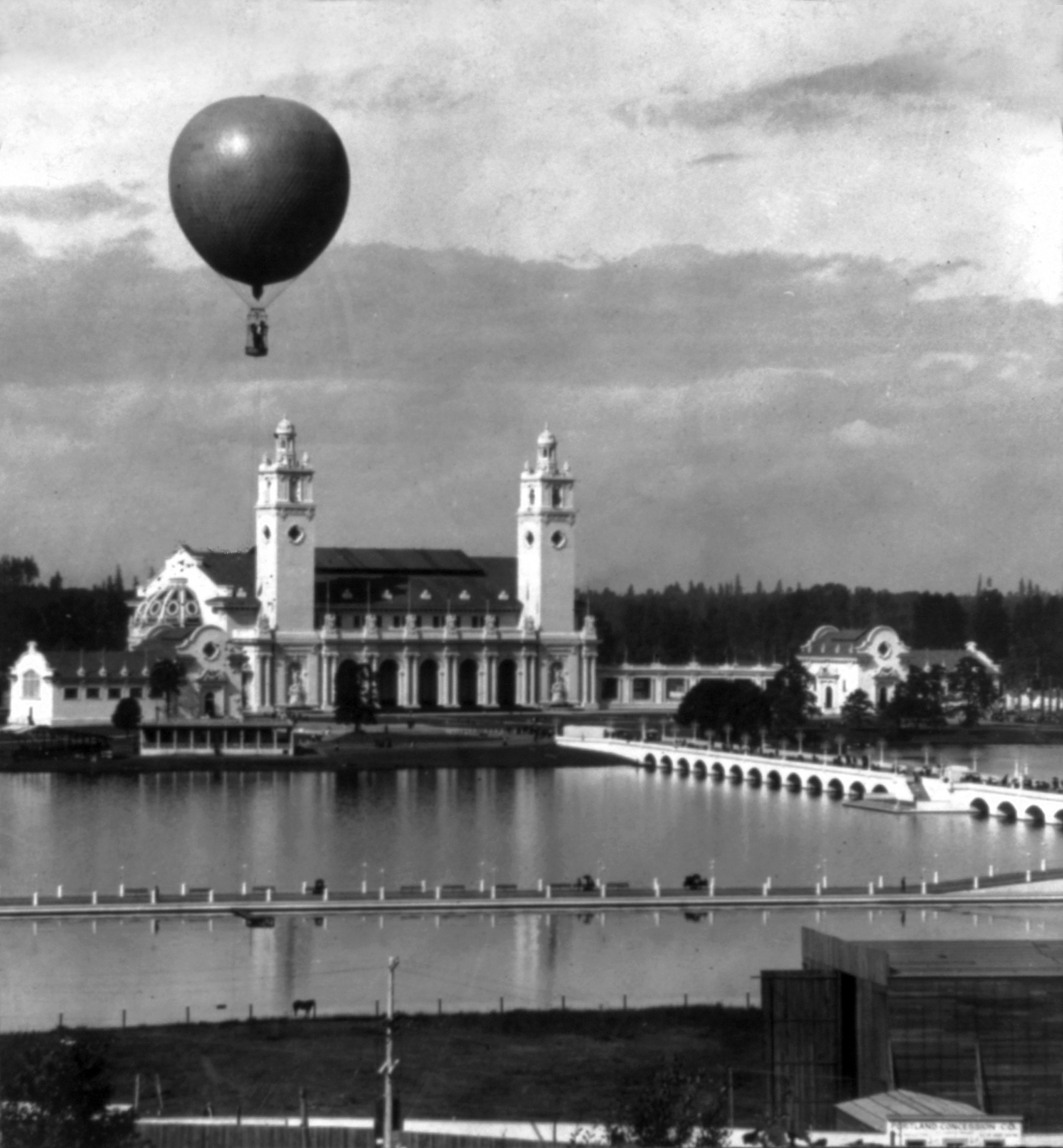 Balloon ascension over Guild's Lake during the 1905 Lewis and Clark Centennial Exposition in Portland, Oregon, United States